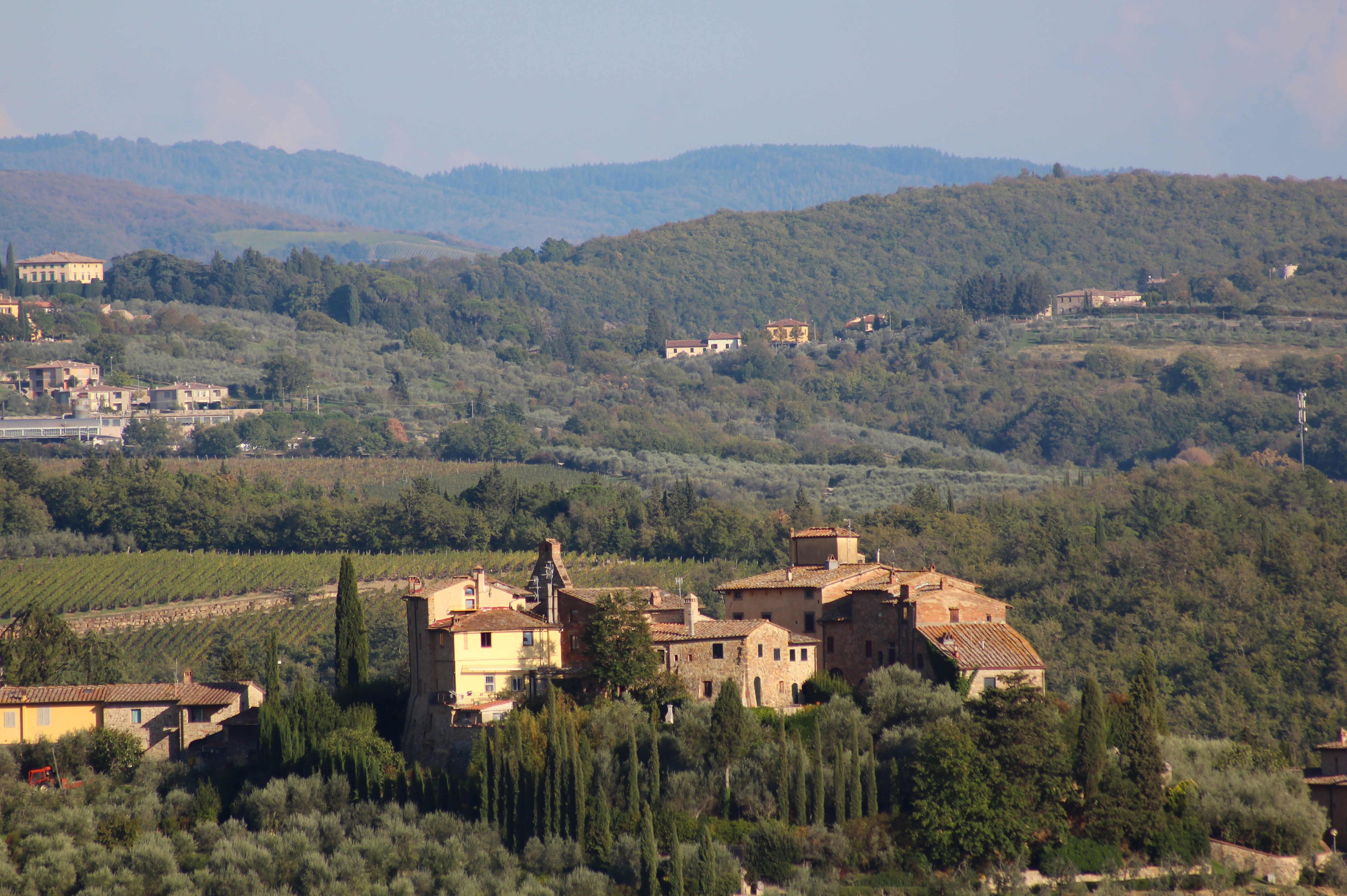 Castle Castello di Tignano, Tignano, hamlet of Barberino Val d'Elsa, Comune in the Metropolitan City of Florence, Tuscany, Italy